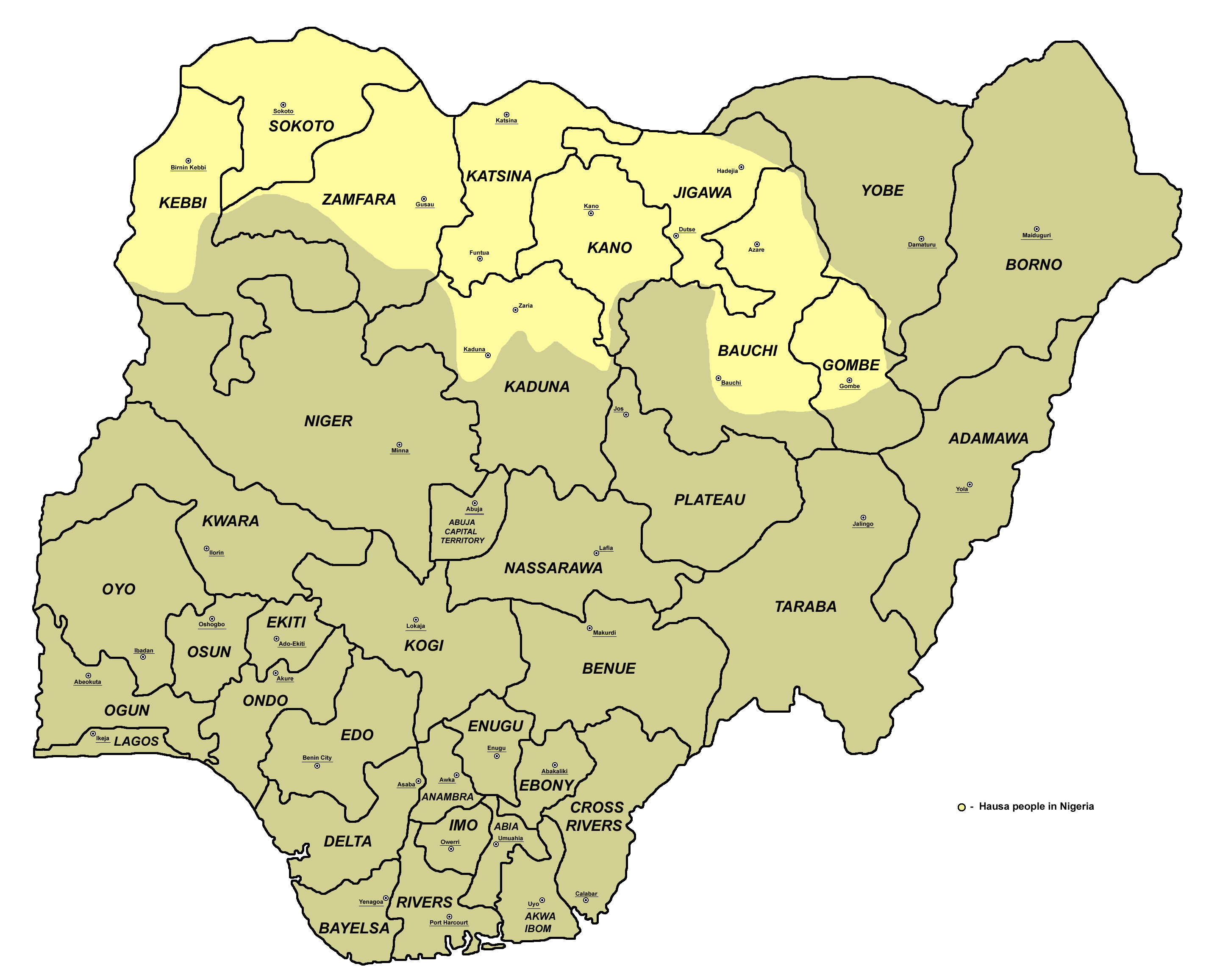 Hausa people in Nigeria.